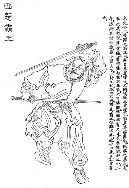 Xiang Yu (232 BC – 202 BC) was a prominent military leader and political figure during the late Qin Dynasty.